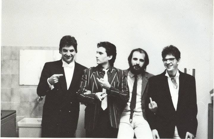 Bloom - Mezzago MI